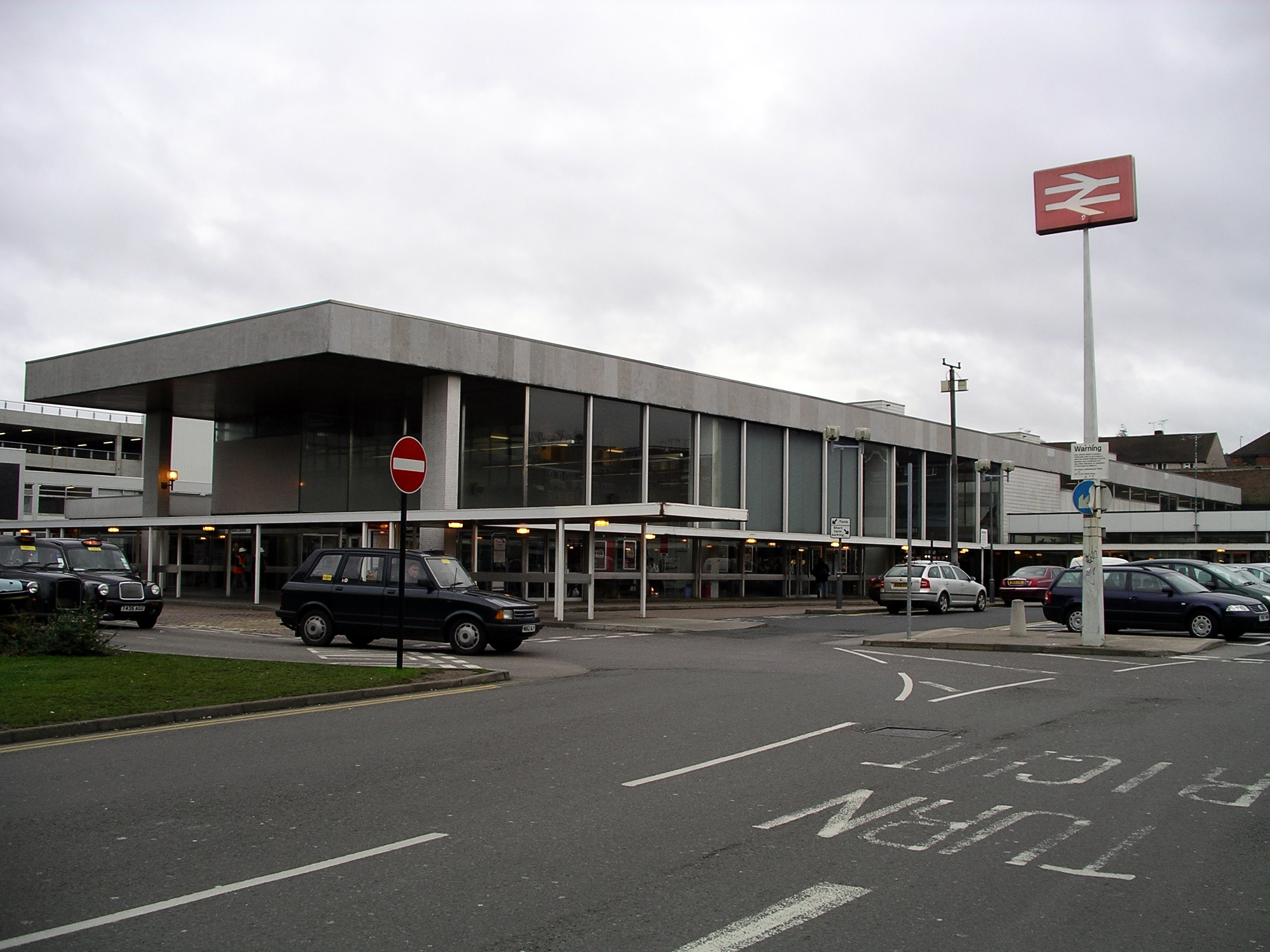 Coventry Railway Station, England, from Station Square.